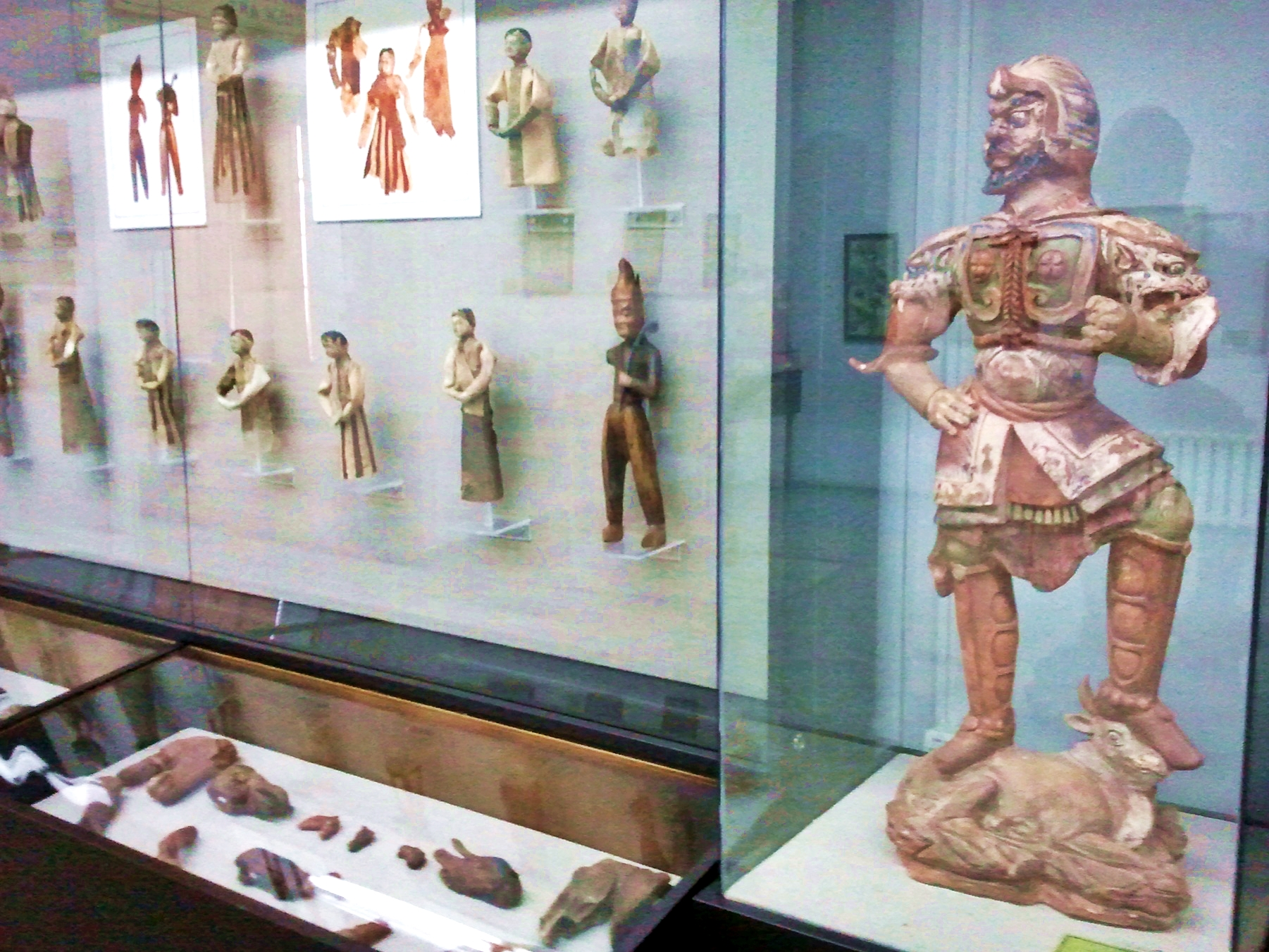 Tang Dynasty style finds. Gokturk Period. 7th century. Shoroon Bumbagar, Zaamar Sum, Tov Province, Mongolia. 180km northwest of Ulan Bator.